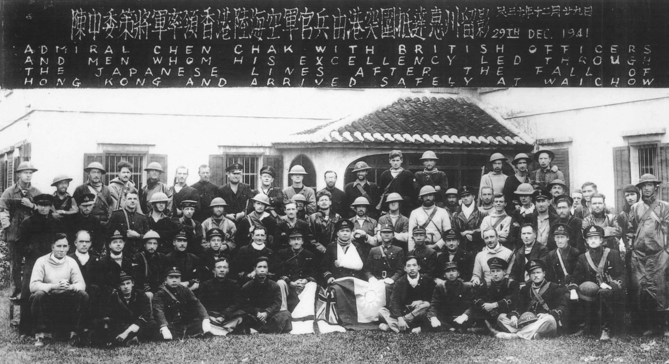 A group photo of the escapees in Waichow, 1941 1941年逃亡隊員於惠州大合照